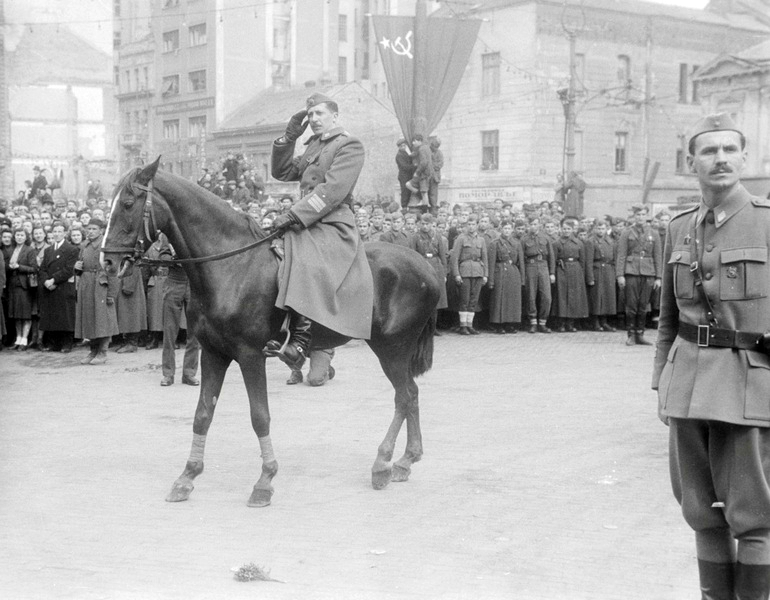 Ljubodrag Đurić is a Serb politician